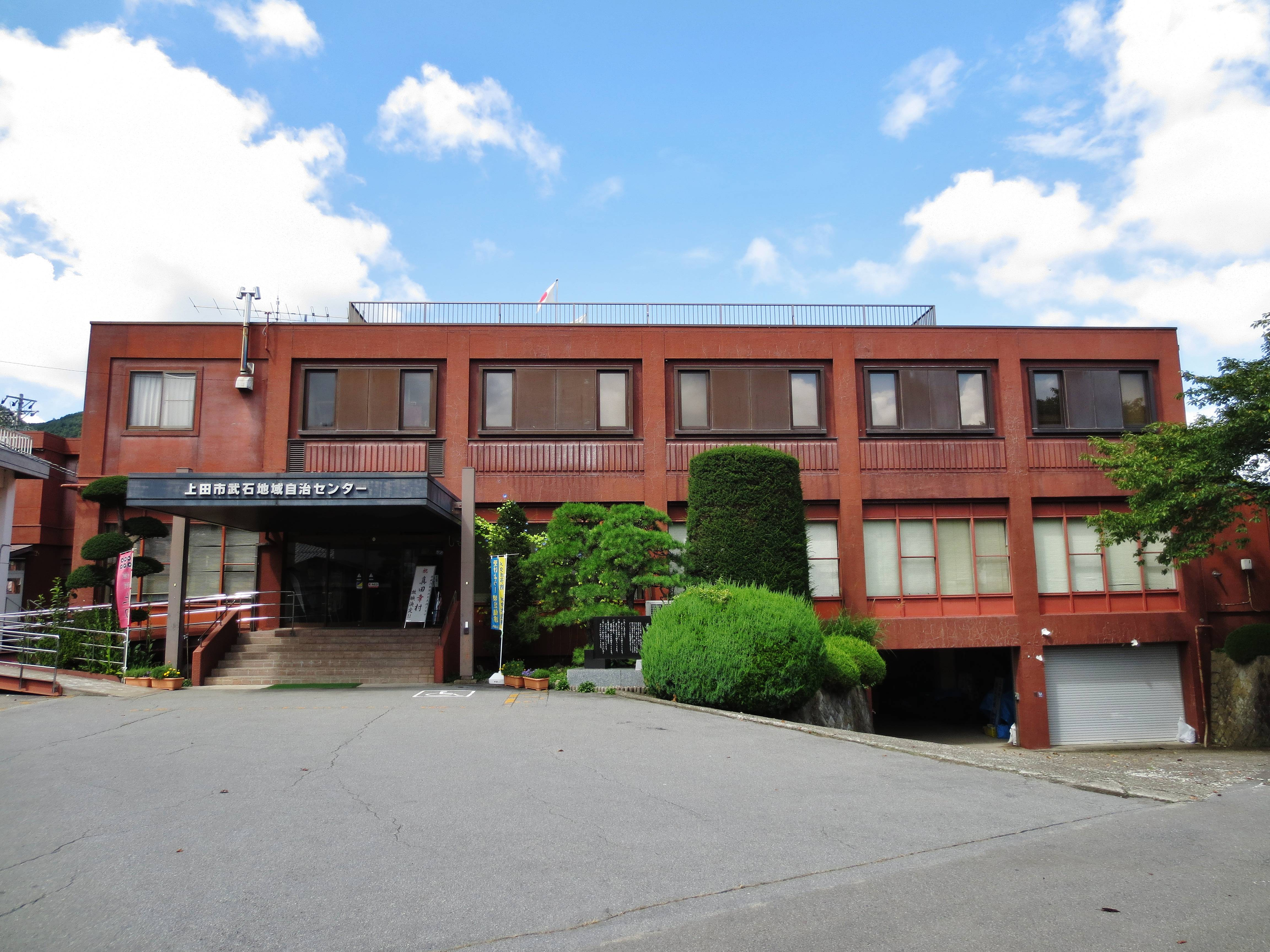 Ueda city Takeshi regional autonomy center.